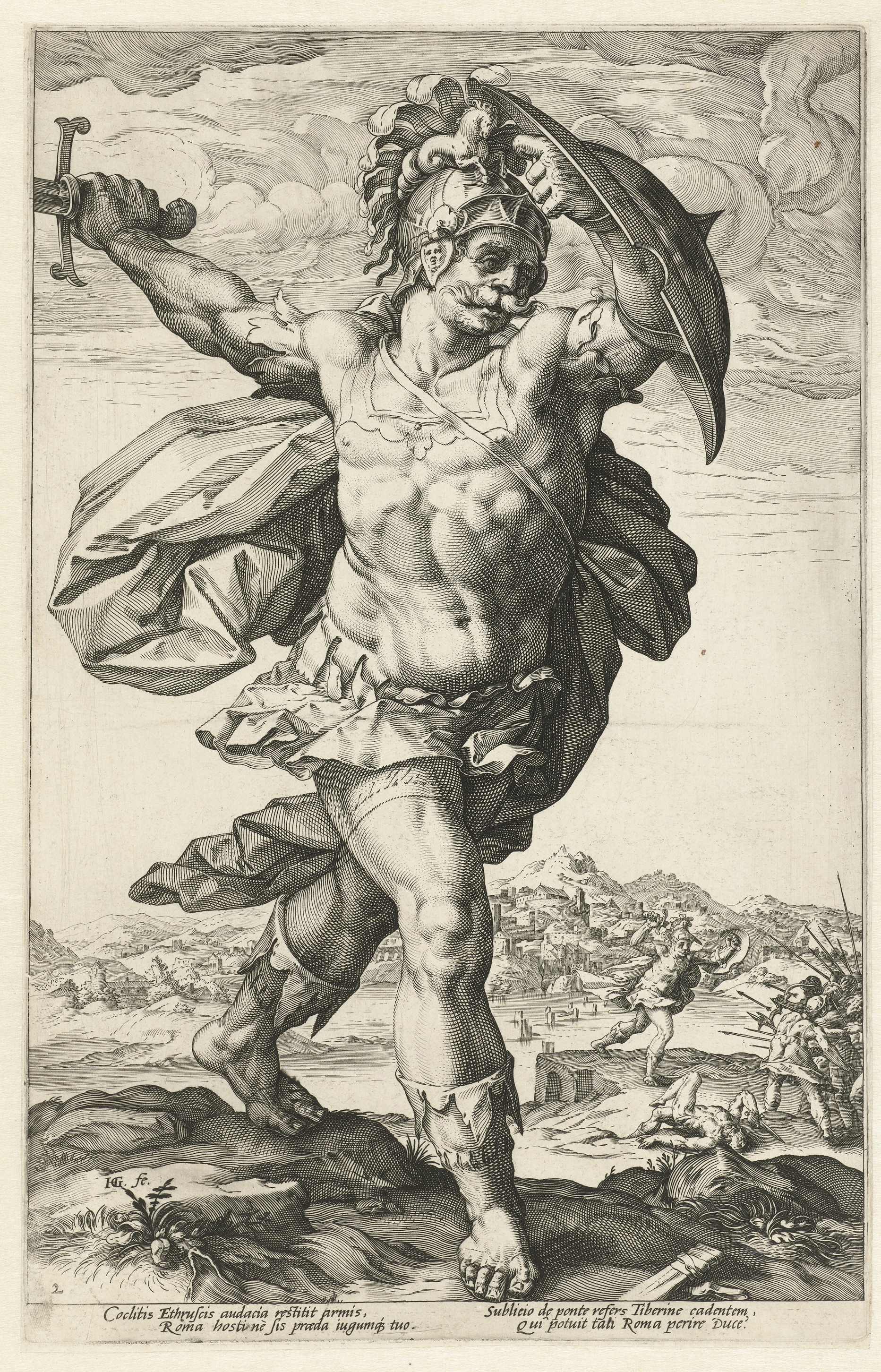 Horatius Cocles (from the series The Roman Heroes).